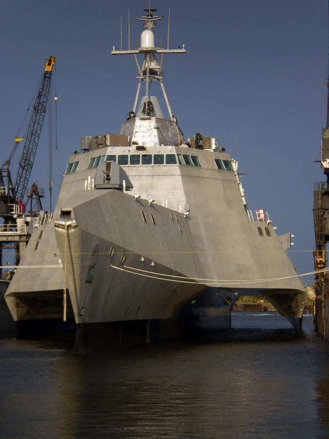 080428-N-3625R-002 MOBILE, Ala. (May 28, 2008) The littoral combat ship pre-commissioning unit Independence (LCS 2) is the second ship in a new design of next-generation combat vessel for close-to-shore operations. The ship will have a crew of less than 40 Sailors and will be able to reach a sustained speed of more than 50 knots. The larger flight deck will accommodate two SH-60 Sea Hawk helicopters or one CH-53-class helicopter. (U.S. Navy Photo/Released)